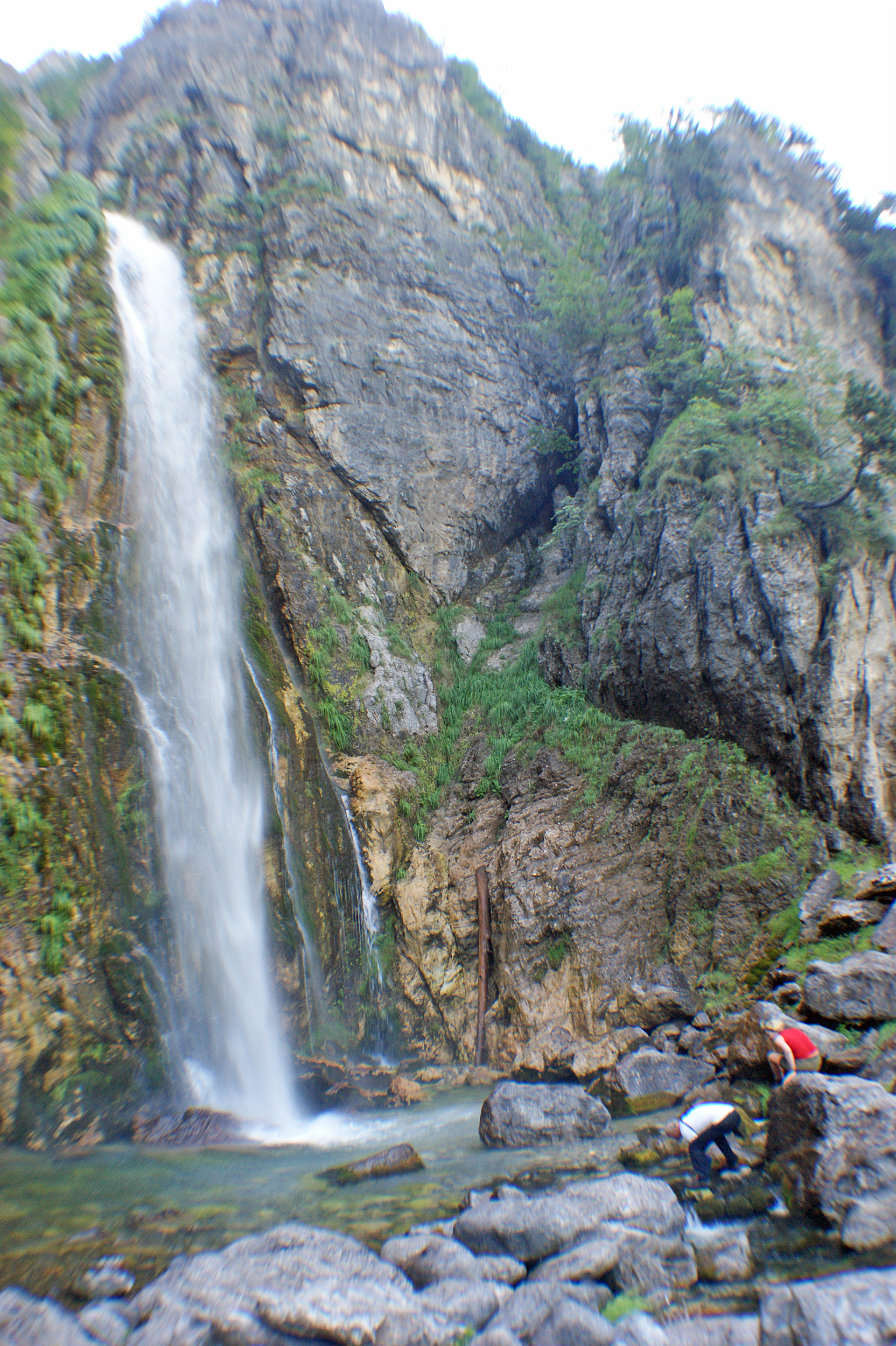 Waterfall of Theth